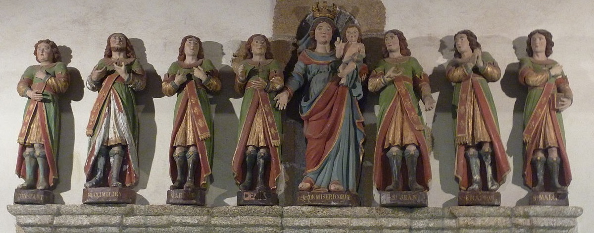 Cropped version of File:Les Sept-Saints dans le choeur.jpg